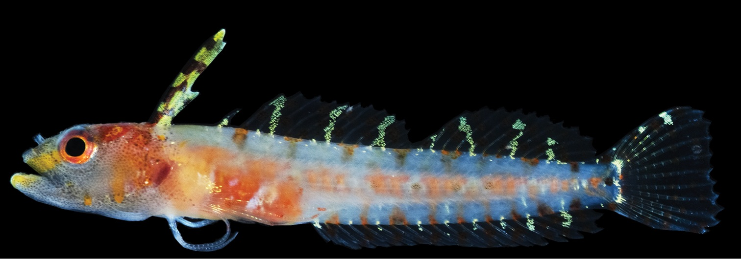 Haptoclinus dropi holotype, USNM 414915, 21.5 mm SL, female. Photograph was taken soon after the fish was captured, against a black background.